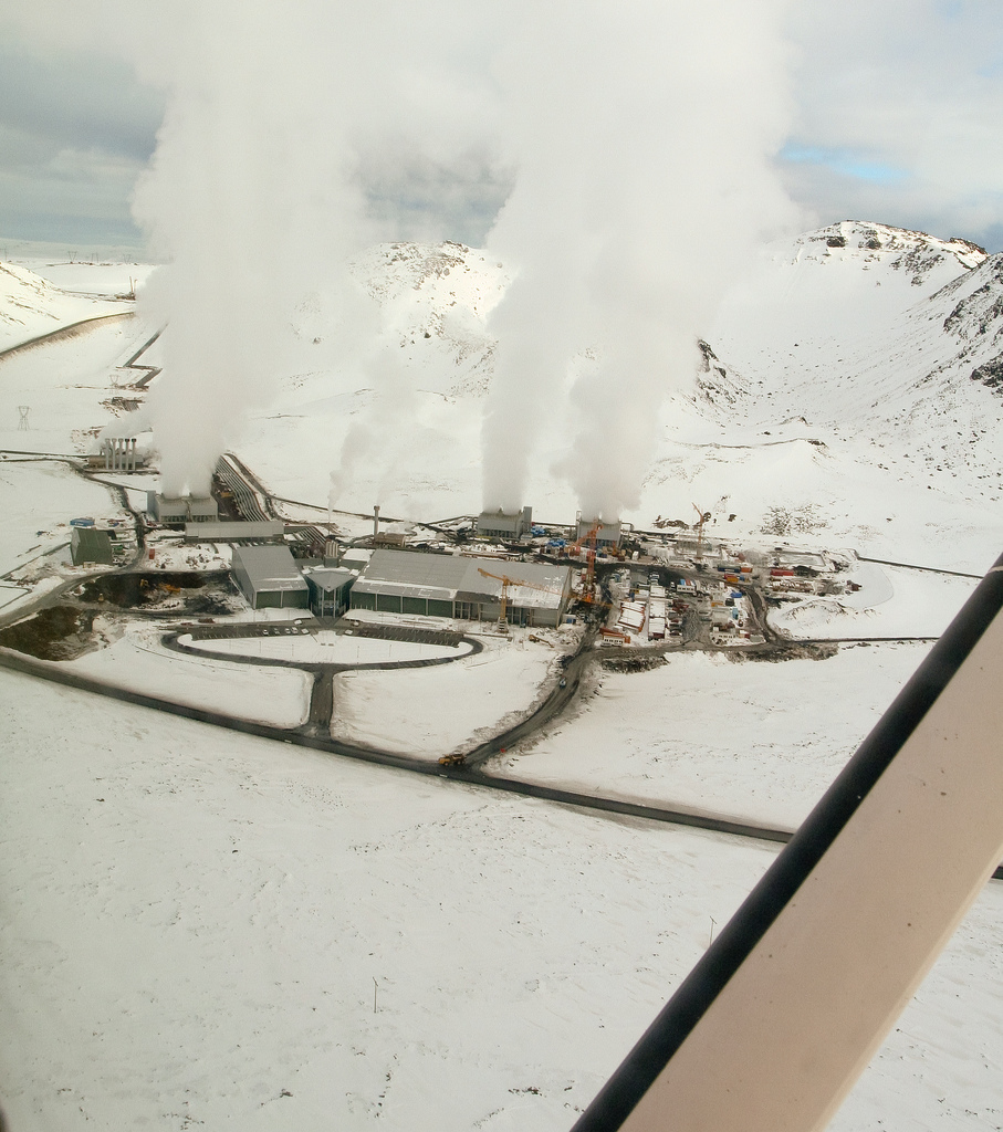 Hellisheiði Geothermal Plant